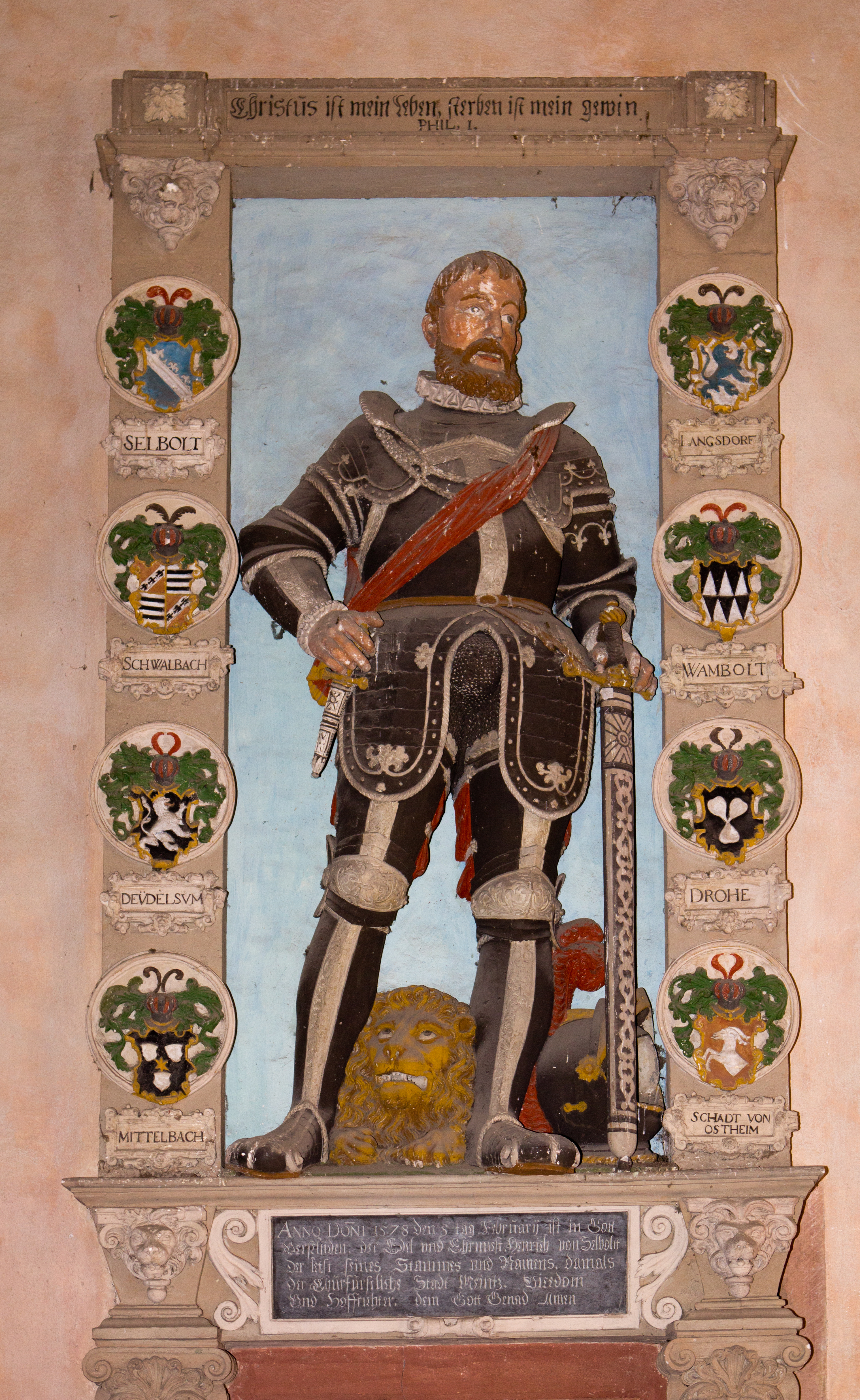 Tomb slab from the Mainzer Vizedom (kind of town mayor in the Middle Ages) Heinrich von Selboltt, shown in the cloister of the cathredral at Mainz.